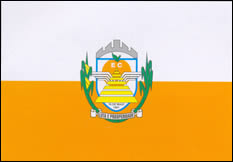 Bandeira de Engenheiro Coelho - SP